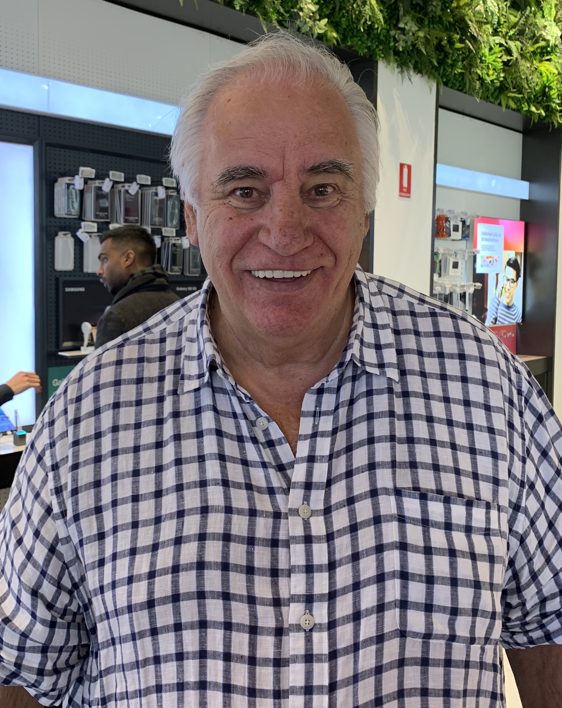 Photograph of former Australian footballer Sam Kekovich, taken with his permission.